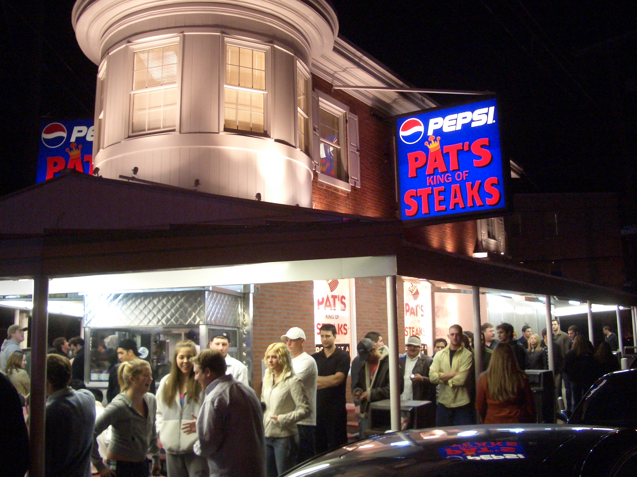 Photographed January 21, 2005. Pat's King of Steaks.